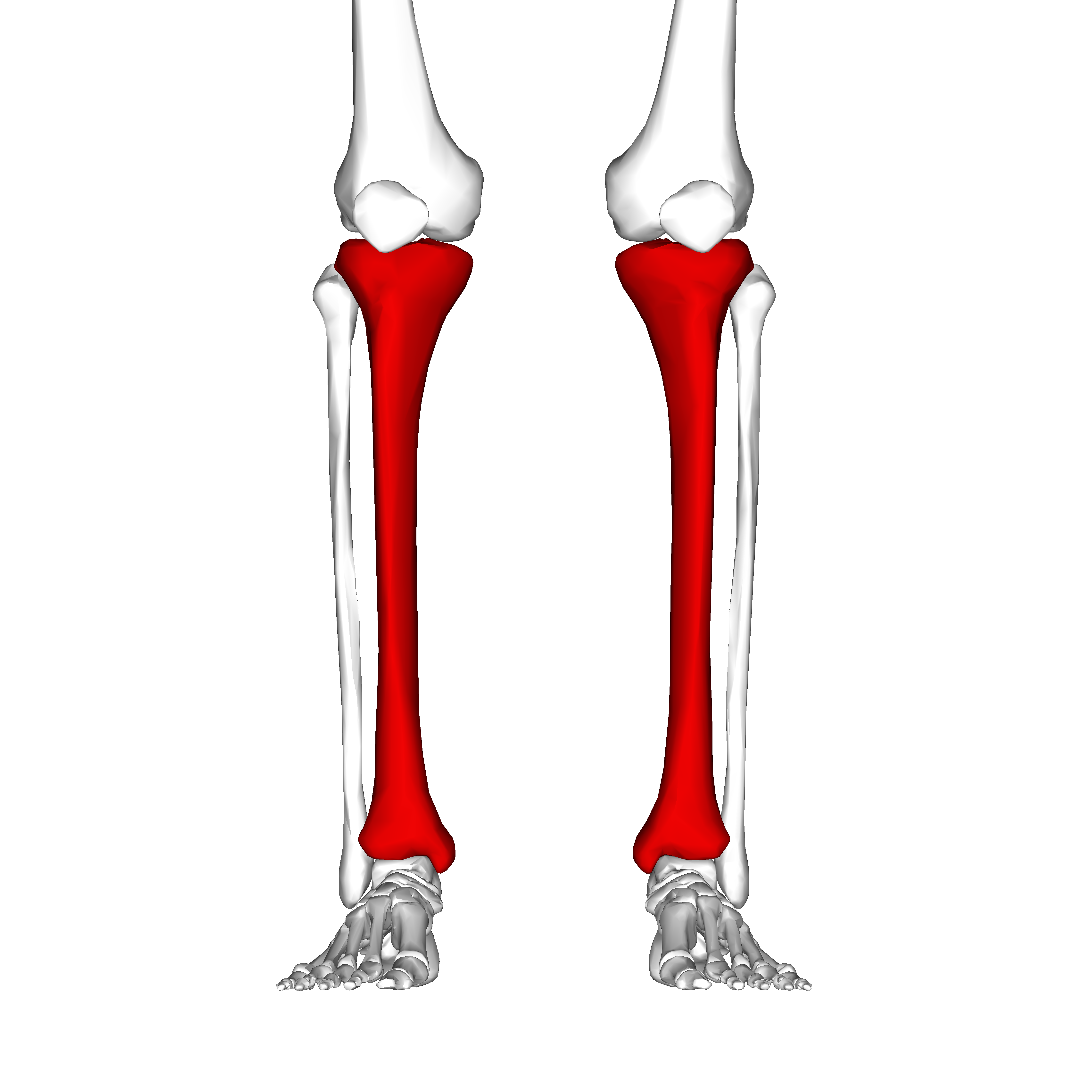 Tibia